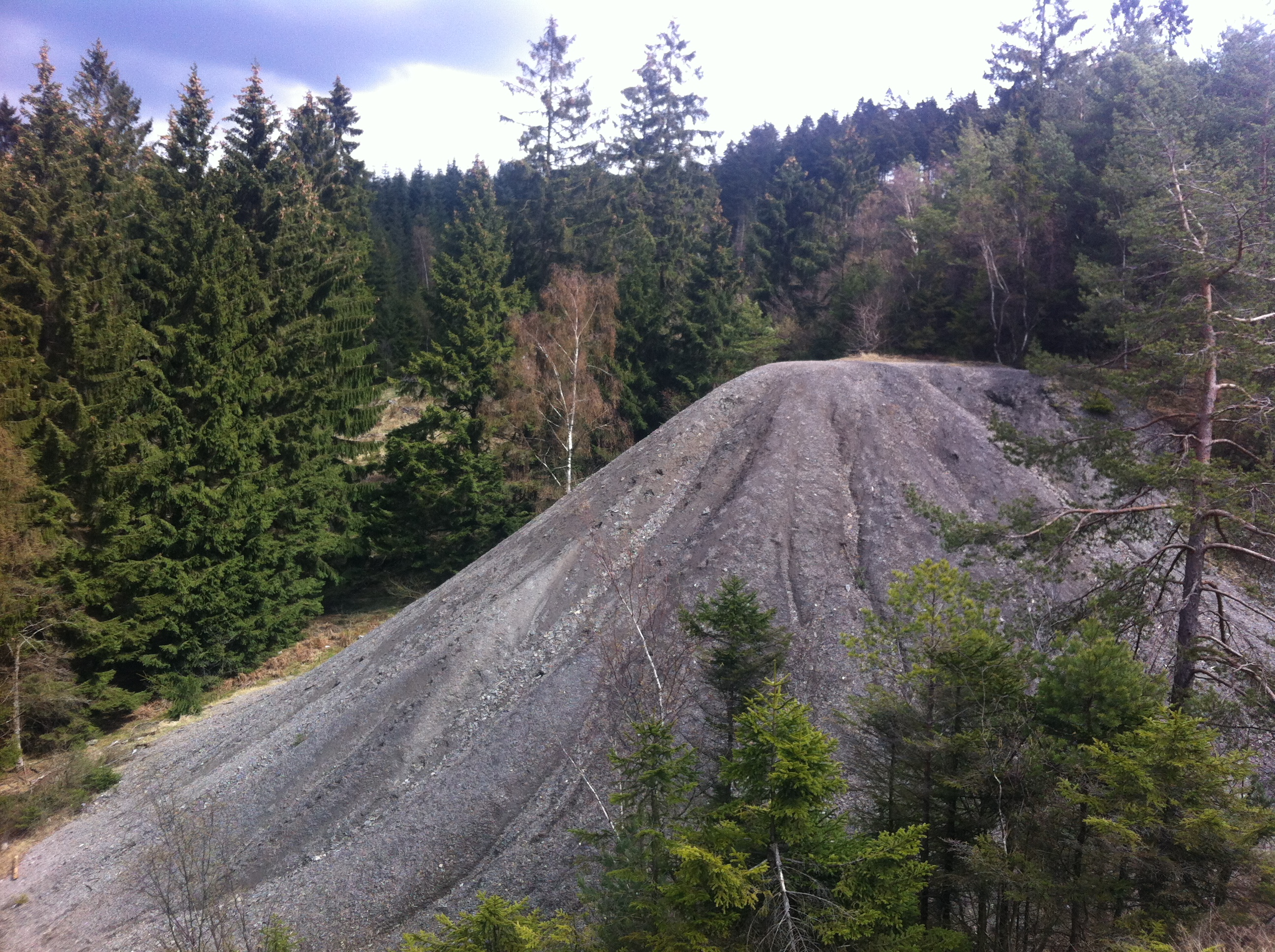 Old mining pile at the "Altenberg", Müsen, Germany